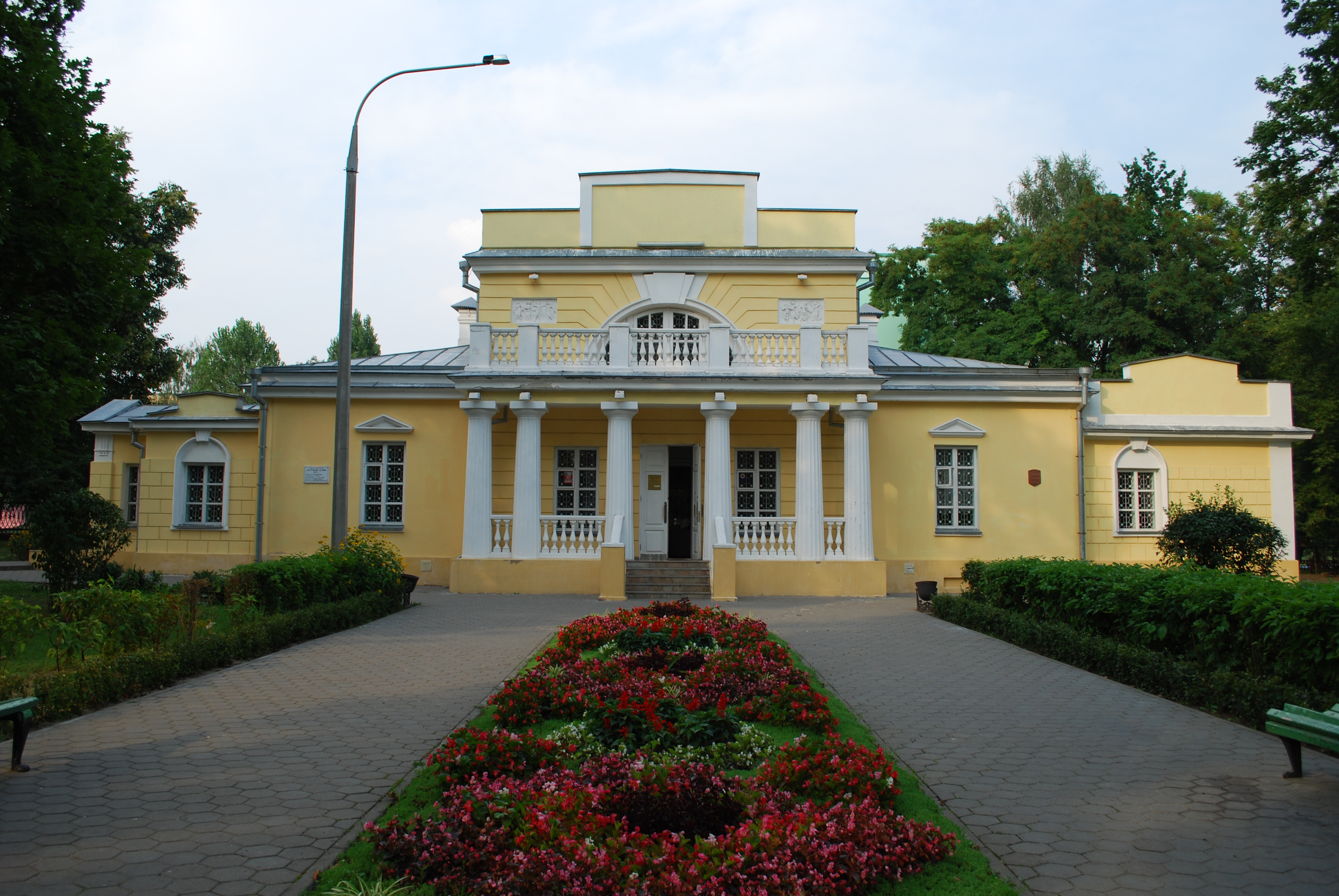 Hunter's House in Gomel